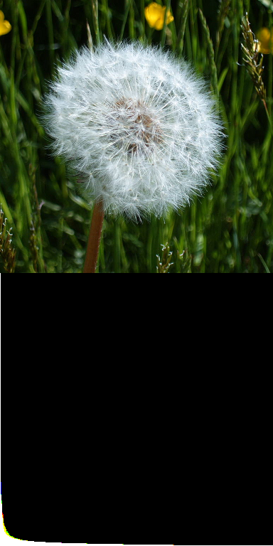 Plot of the singular values of a 384×384 3D matrix (a R,G,B picture). We see that they quickly decay, both in the 3 dimensions.